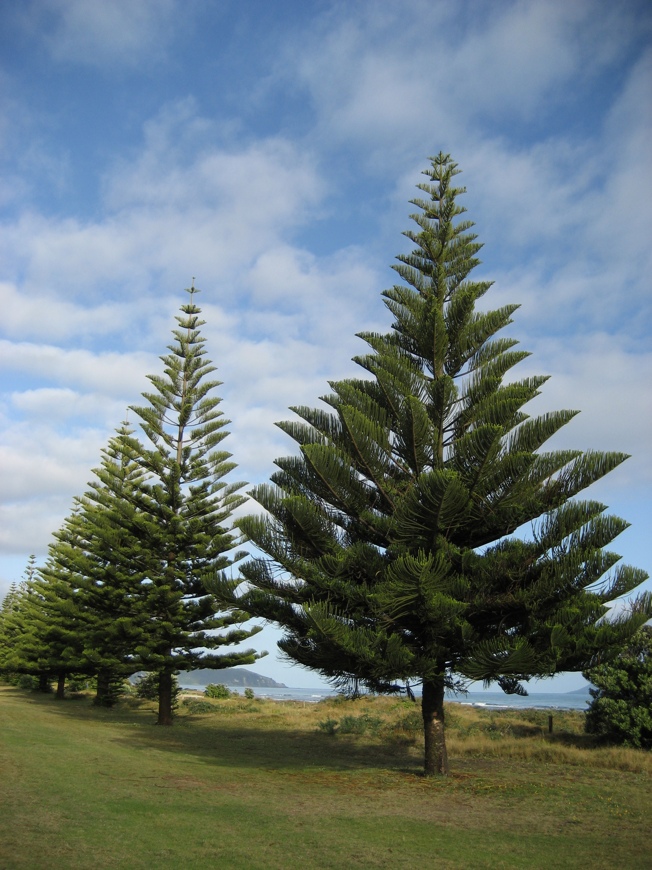 Araucaria heterophylla (Norfolk Island pines), Ōhope, near Whakatāne, New Zealand.